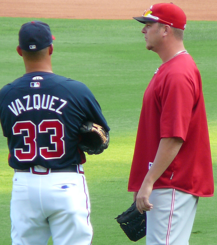 If used somewhere other than Wikipedia, Nelson, by name. 04:01, 20 September 2009 . . Chrisjnelson . . 738×835 (472 KB)